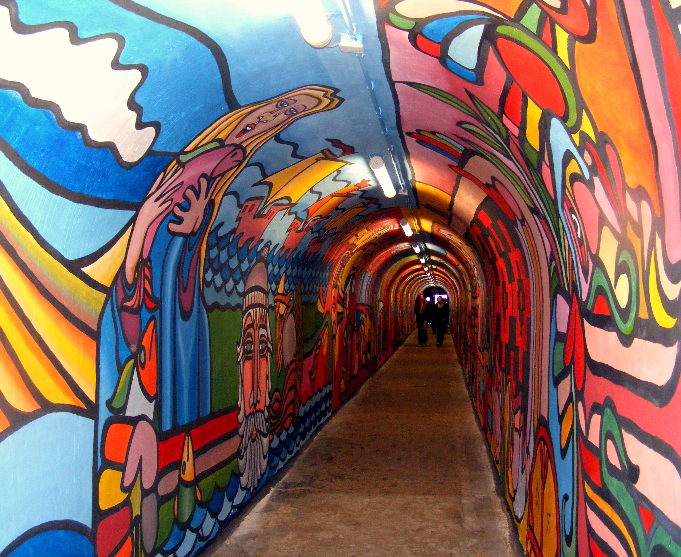 art work from BRIGADA RAMONA PARRA DE HAAN (location)